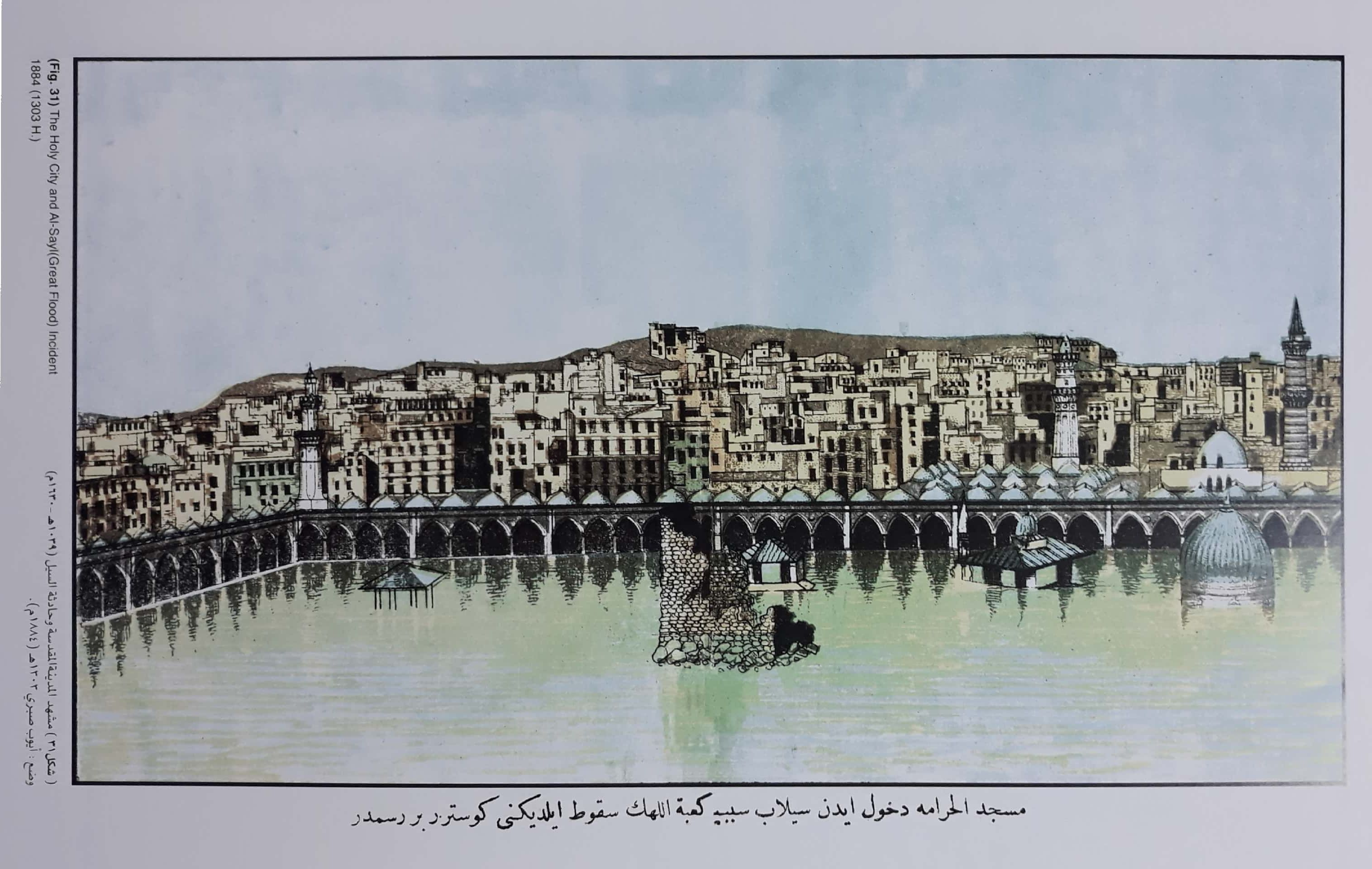 The Holy and Al-Sayl (Great Flood) Incident 1884 (1303 H.).